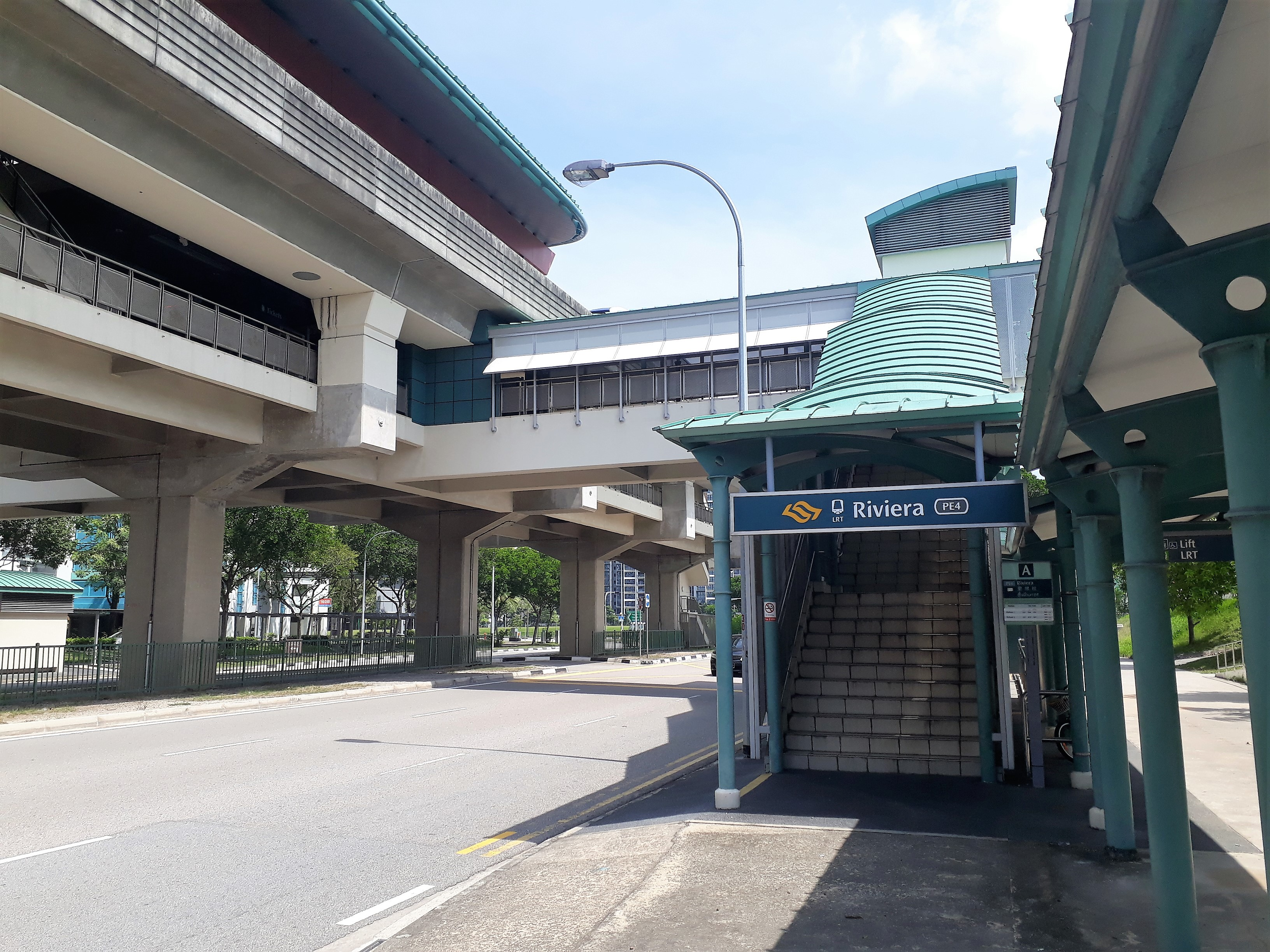 Exit A of Riviera LRT station